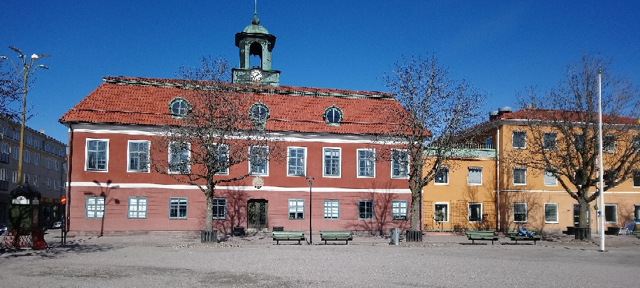 Sala rådhus